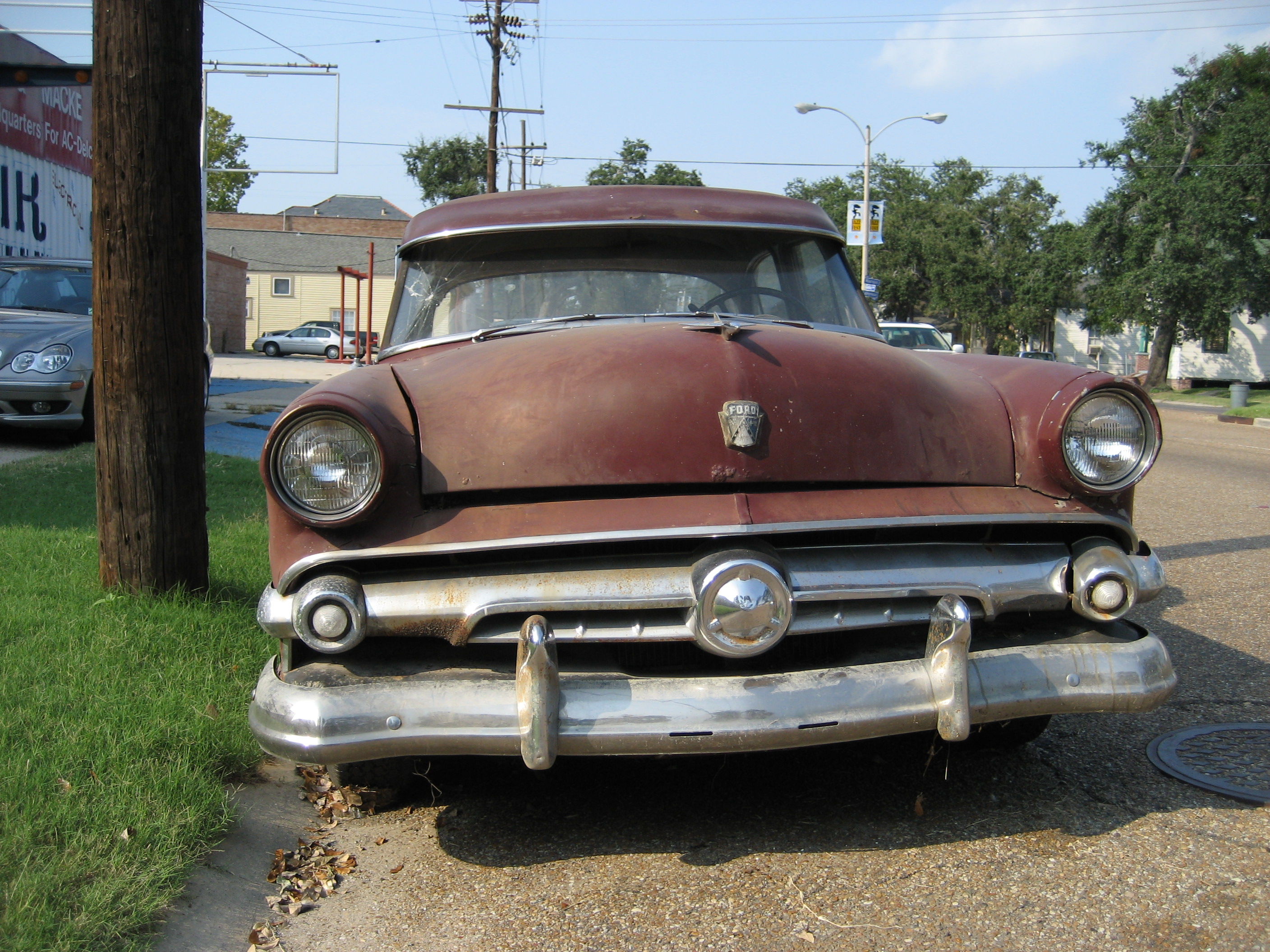 1954 Ford Mainline seen in Bayou St. John neighborhood of New Orleans.